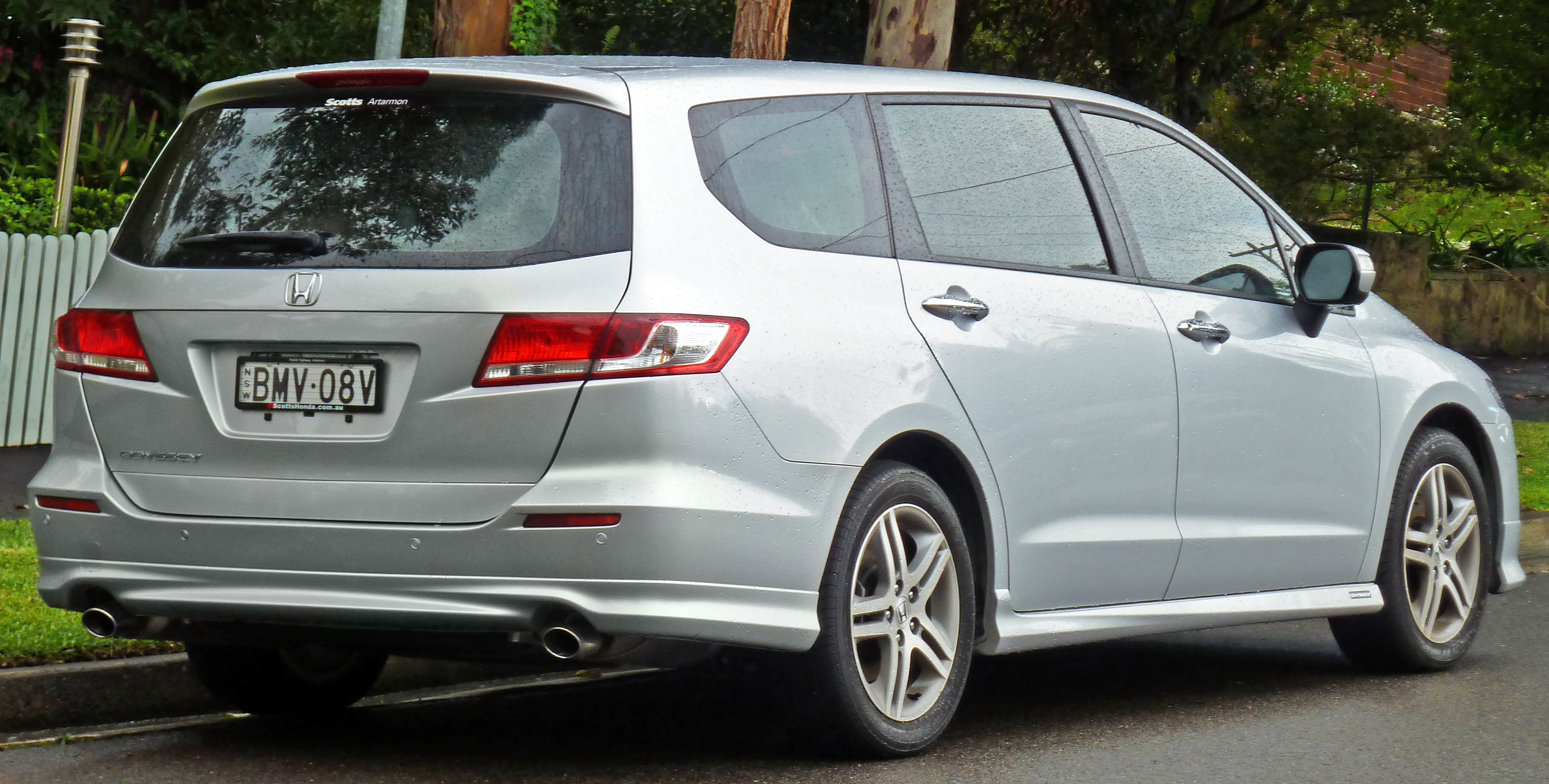 2009–2011 Honda Odyssey Luxury van. Photographed in Roseville, New South Wales, Australia.